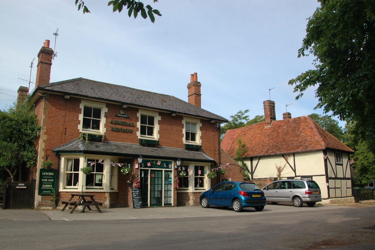 The Admiral Benbow pub, Milton, Oxfordshire (formerly Berkshire). The timber-framed building on the right is 42A High Street, a house built in the 14th or 15th century.